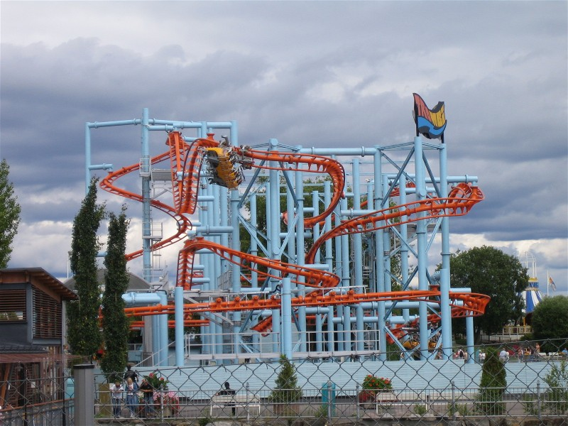 Trombi at Särkänniemi